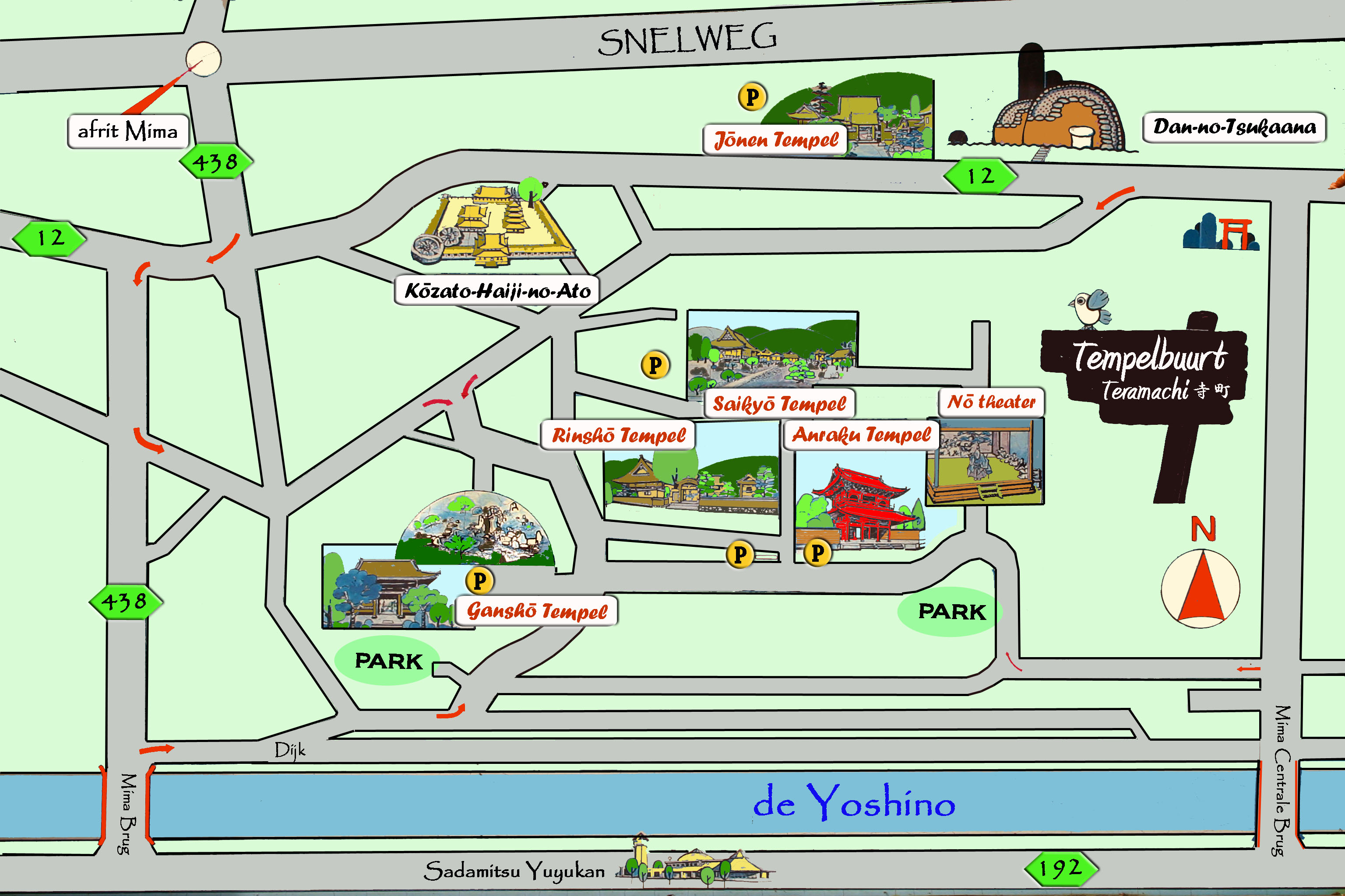 Map of Tempel Town (Teramachi) in Mima-shi, Tokushima-ken